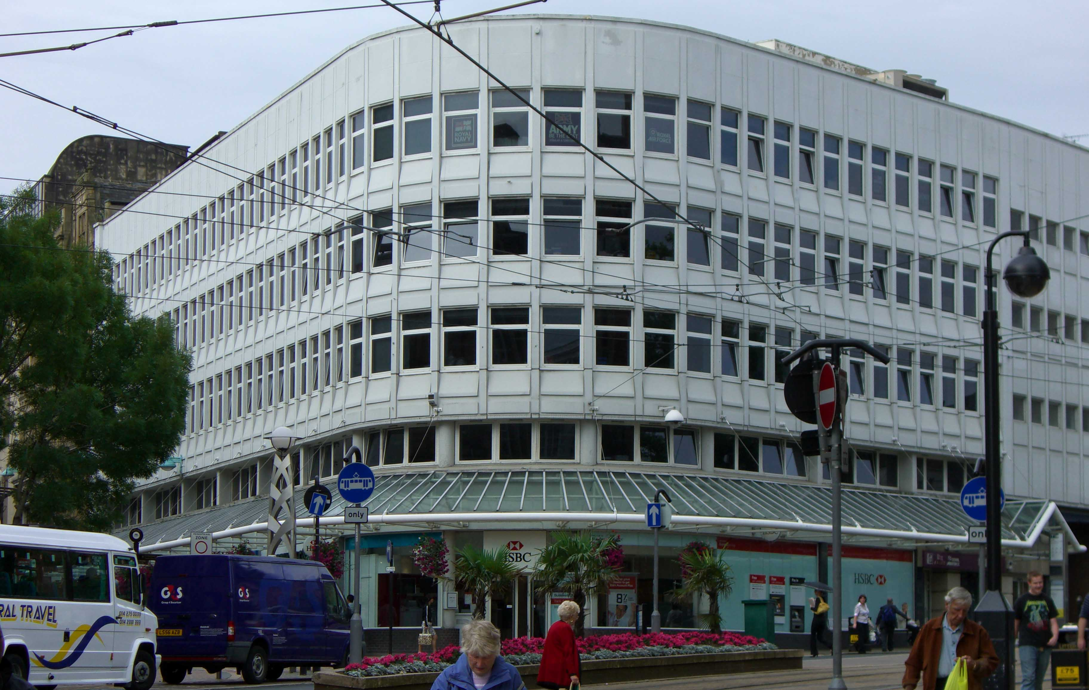 Coles Corner at the junction of Fargate and Church Street in Sheffield, England